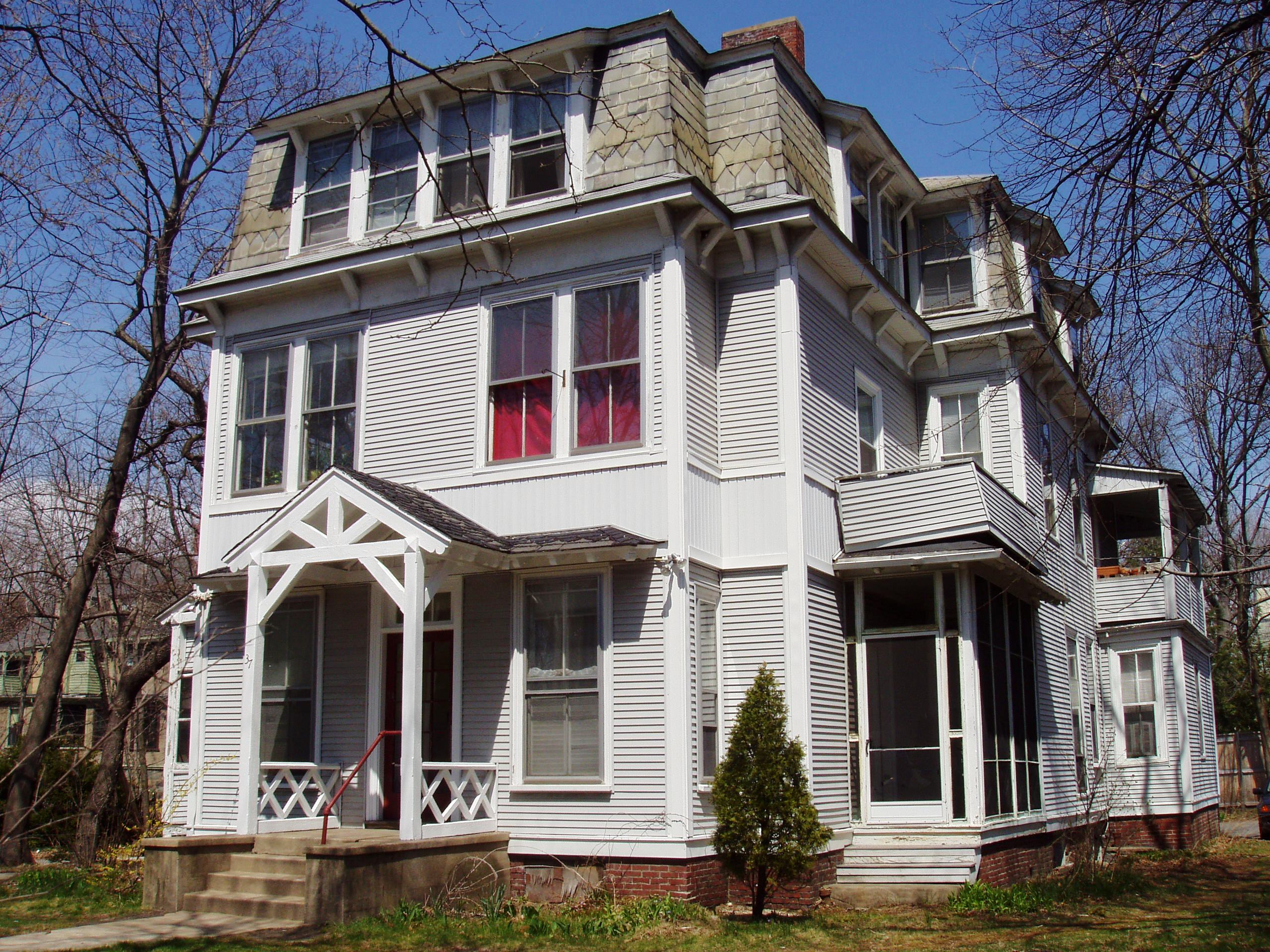 Photograph of William Dean Howells house, 37 Concord Avenue, Cambridge, Massachusetts, USA. Howells and family lived in this house from 1872-1878.